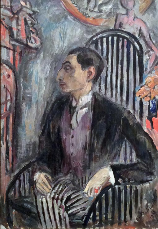 Konsthandlare Alfred Flechtheim, 1913 The art dealer Alfred Flechtheim